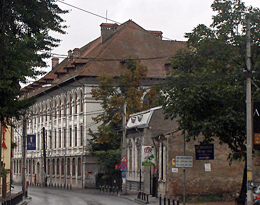 Egalităţii Street with a view of Zinca Golescu High School, in Piteşti, Romania.